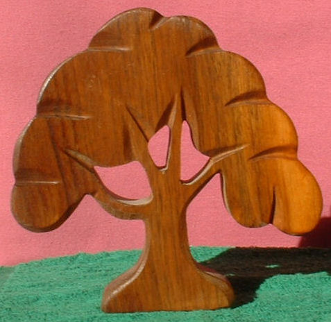 walnut wood